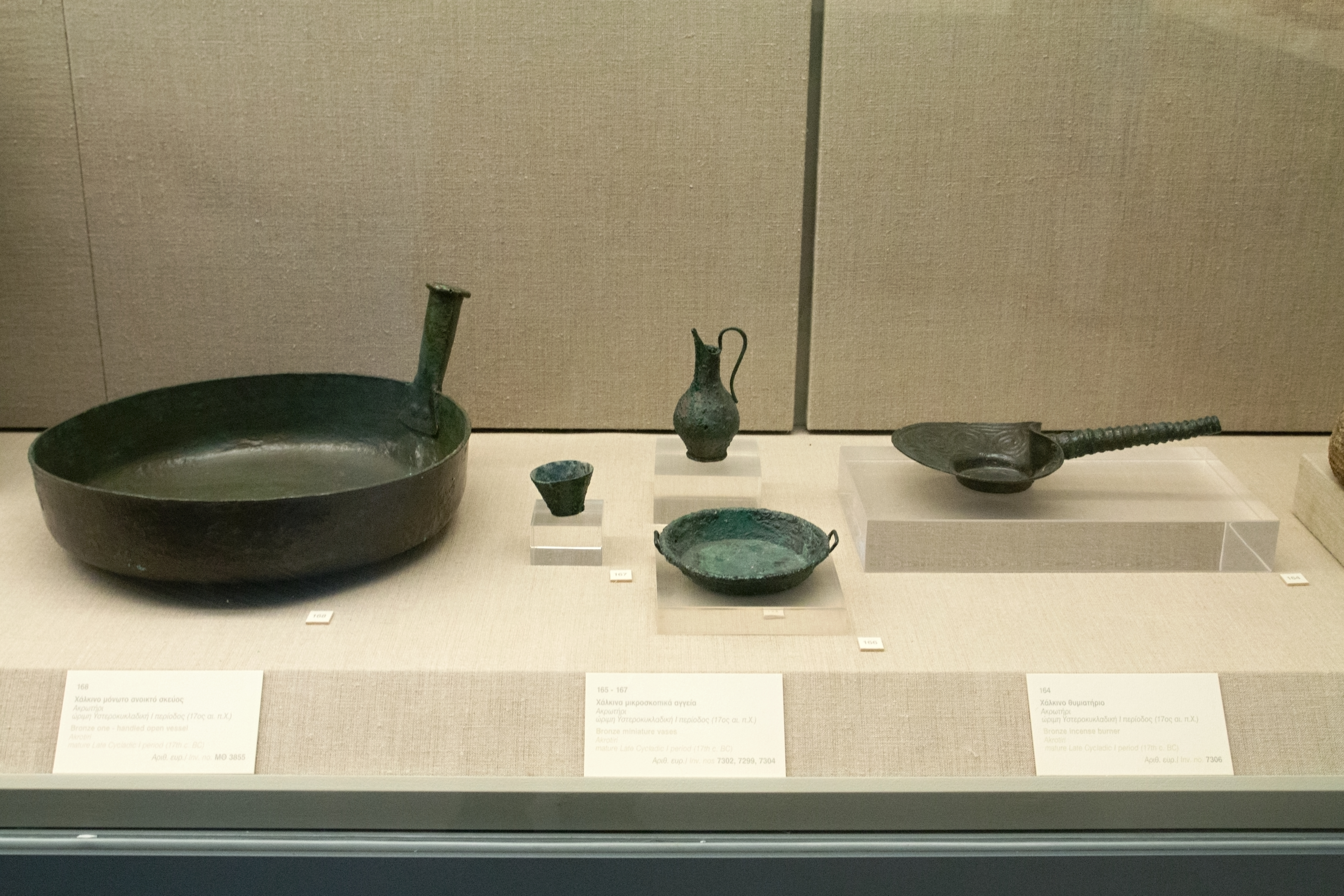 Bronze baking pans. Akrotiri, LC I, 17th century BC. Prehistoric Museum of Thira.